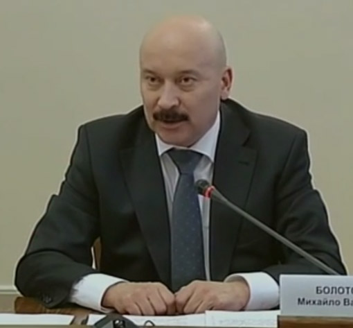 Mykhailo Bolotskykh, Head of the State Emergency Service of Ukraine, former acting Minister of Emergencies of Ukraine